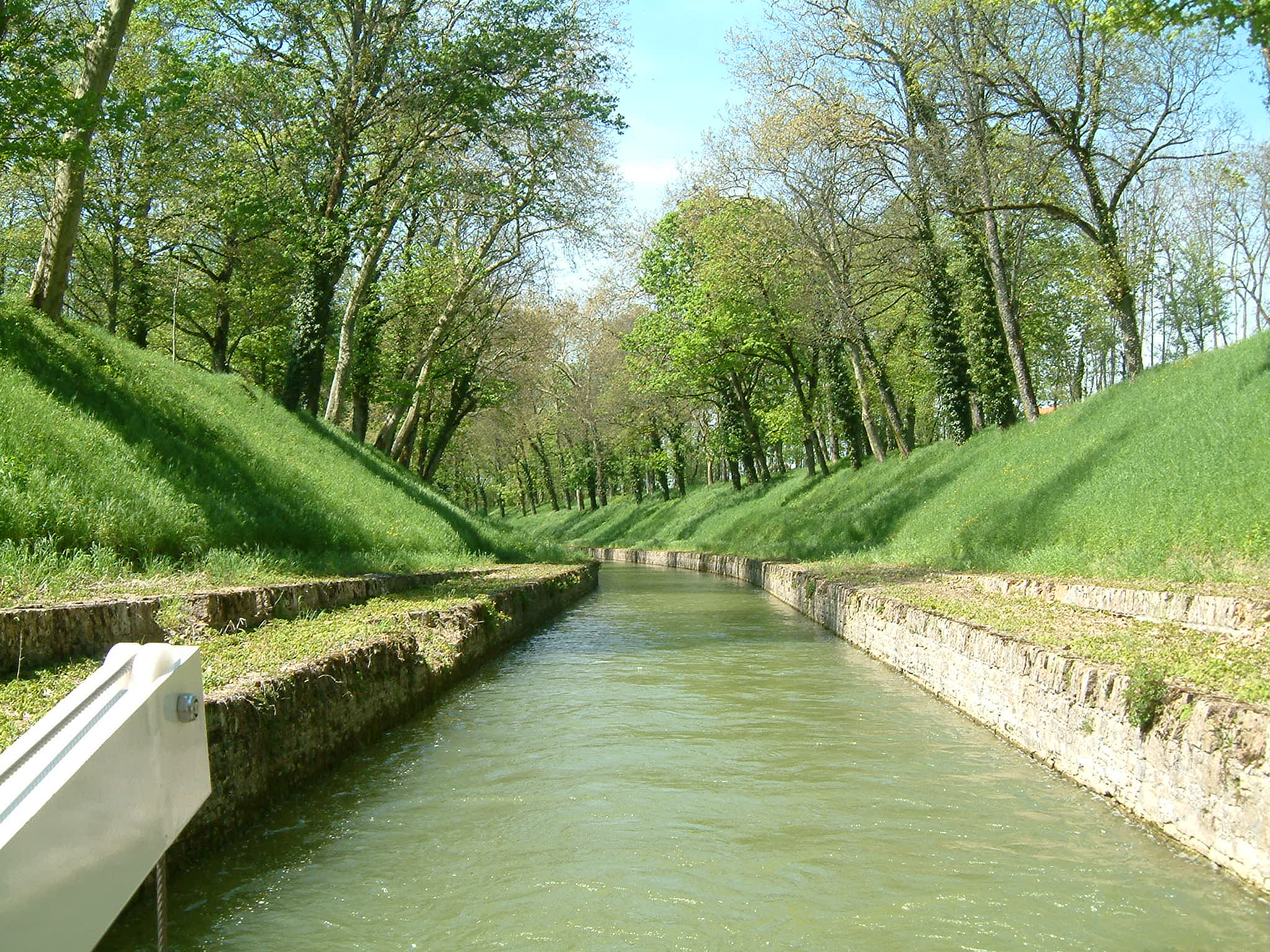 Canal of Burgondy at Créancey, Côte-d'Or, Bourgogne, France. The "tranchée de Créancey" ("Créancey Trench"), thus called because the canal here is deep-dug so as to avoid having to build more locks. Just around the bend ahead starts the 3.3 km-long tunnel where the canal reaches its highest point and crosses the dividing line between the Seine basin and the Rhône basin.